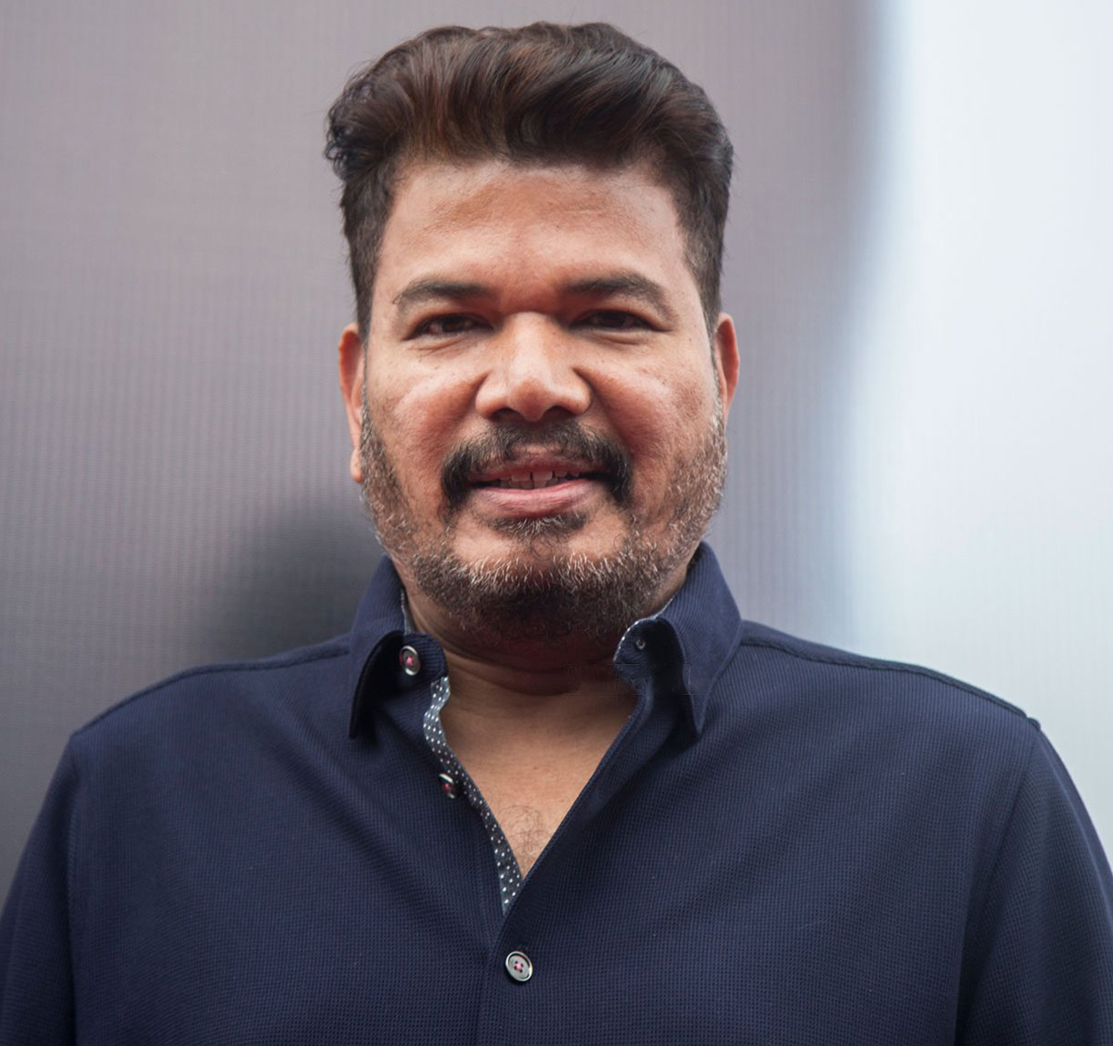 Shankar at the 2.0 Trailer Launch